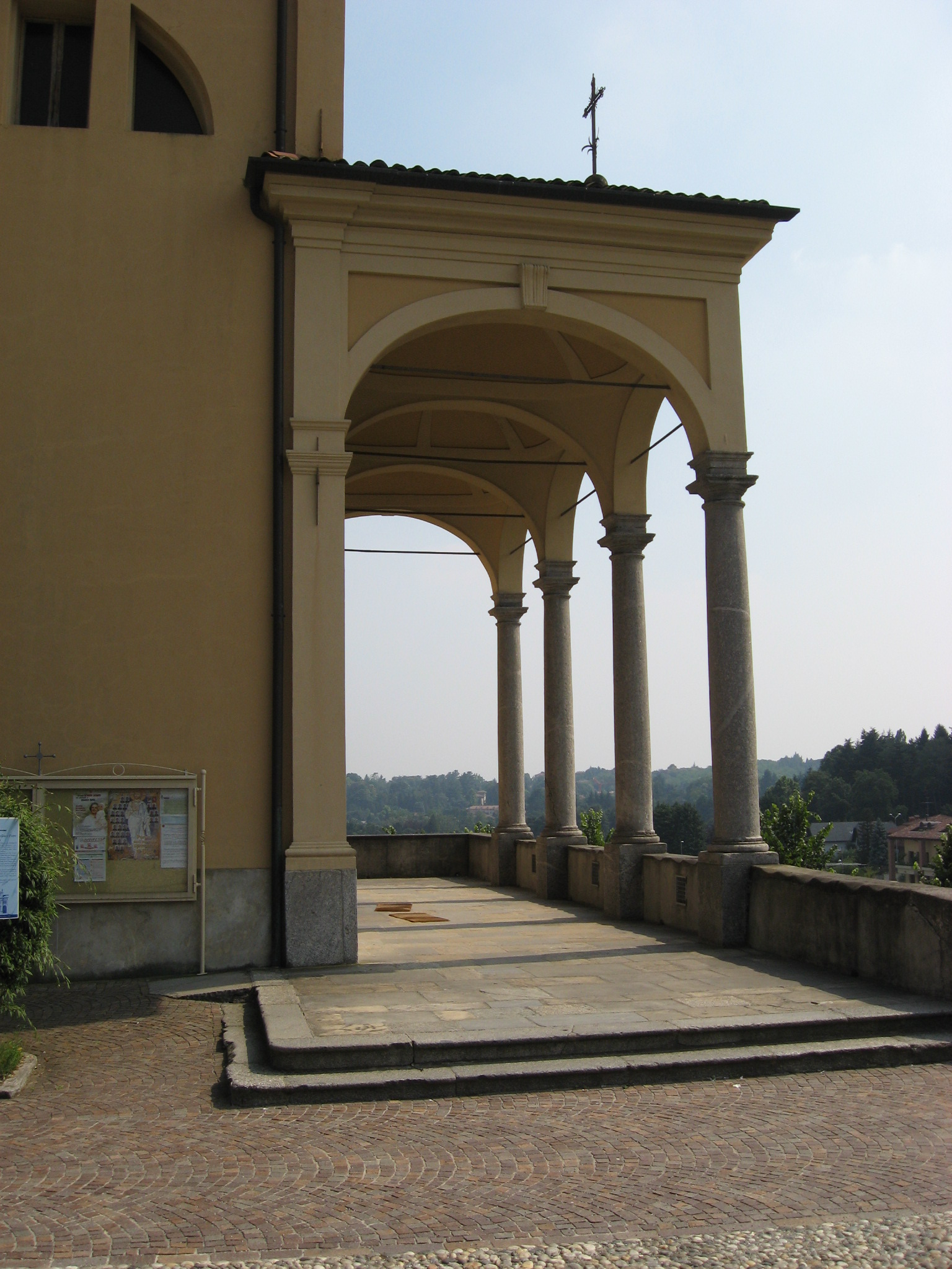 Pronaos of the "Chiesa dei Santi Marcellino e Pietro" in Imbersago, Italy